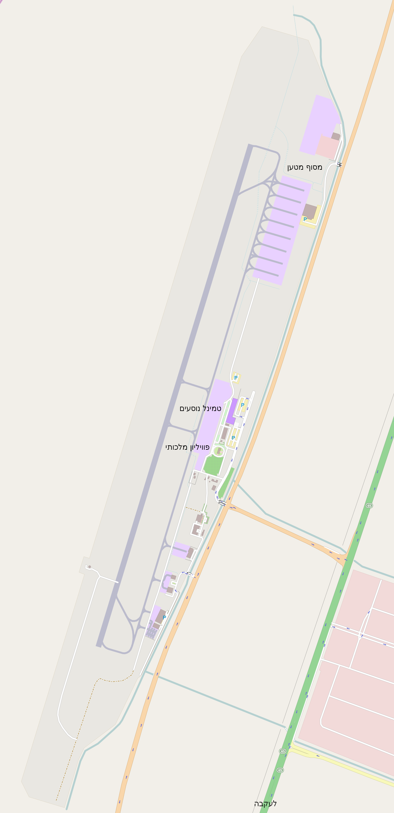 King Hussein International Airport map